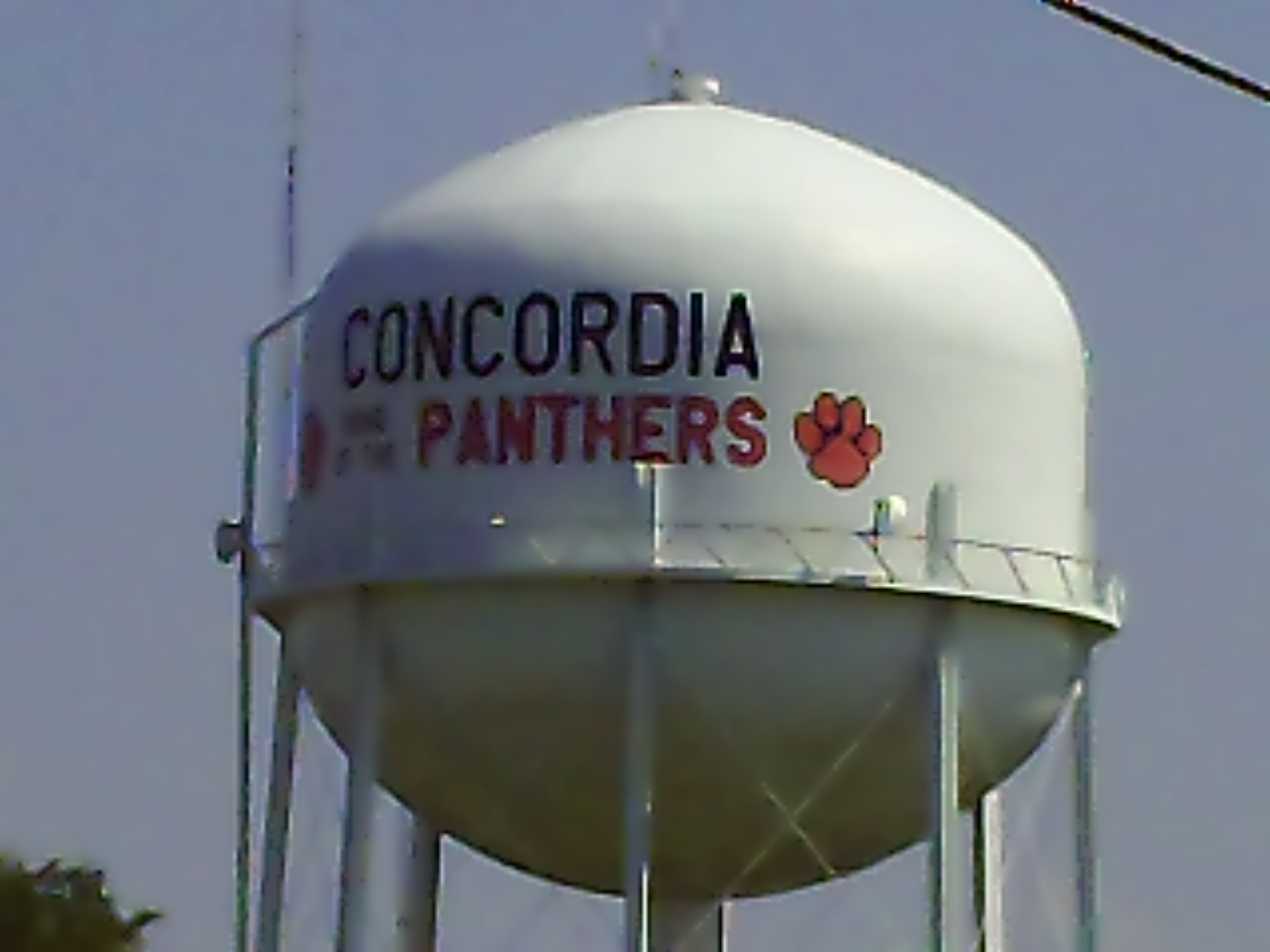 Concordia, Kansas water tower